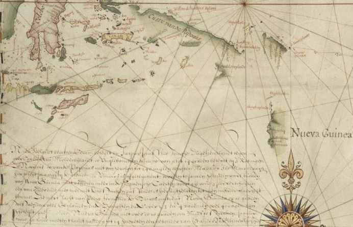 Gerritsz, Nueva Guinea, 1622, showing Jansz's discoveries: Part of Hessel Gerrits's 1622 map of the Pacific